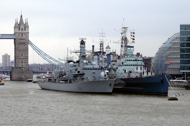 The HMS Somserset, a Type 23 frigate of the Royal Navy, in London, next to the HMS Belfast, 2006.